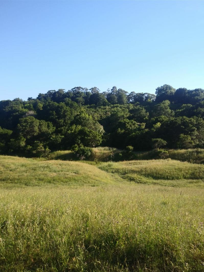 Wildcat Canyon Regional Park field and forest